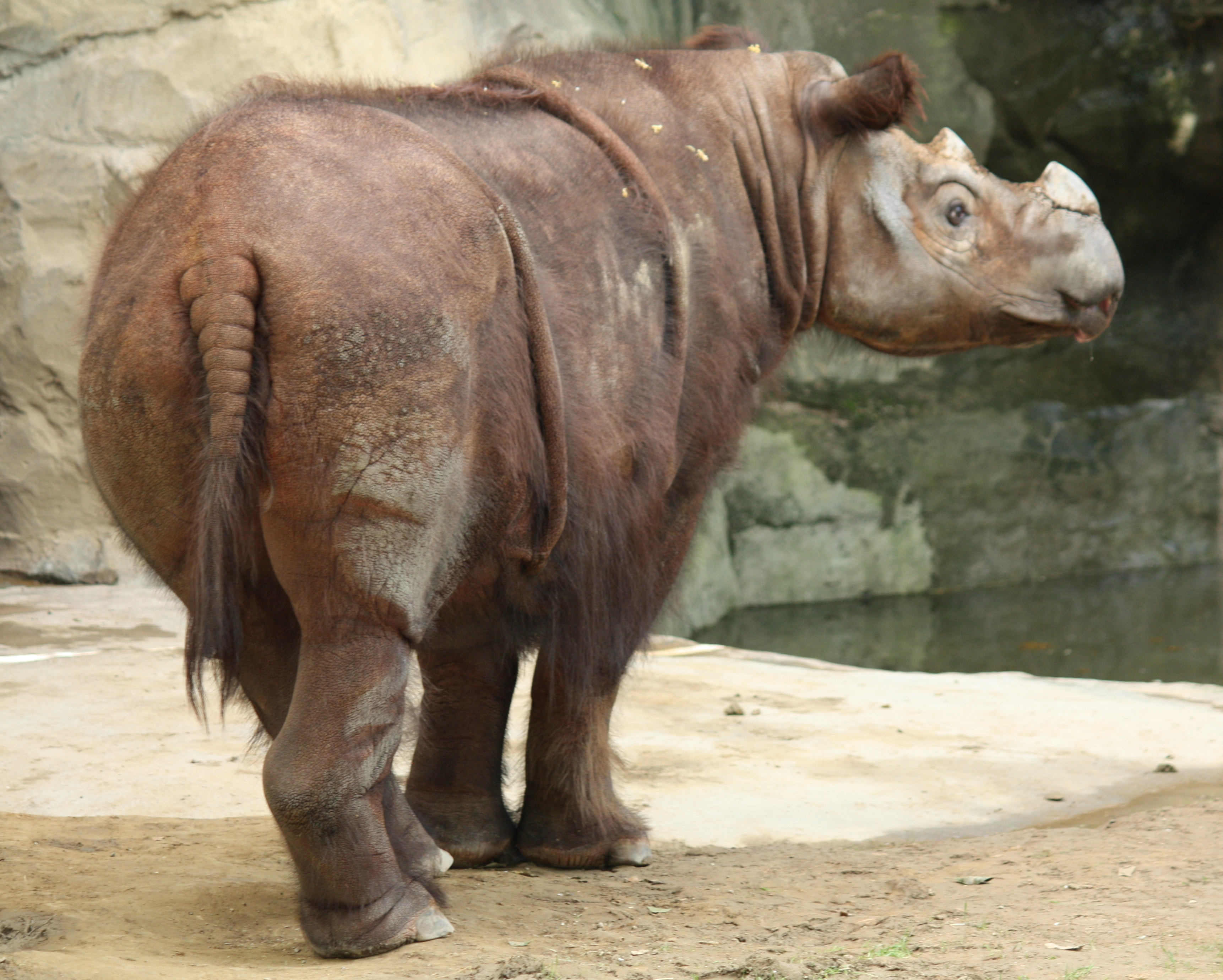 Sumatran Rhino Dicerorhinus sumatrensis at Cincinnati Zoo